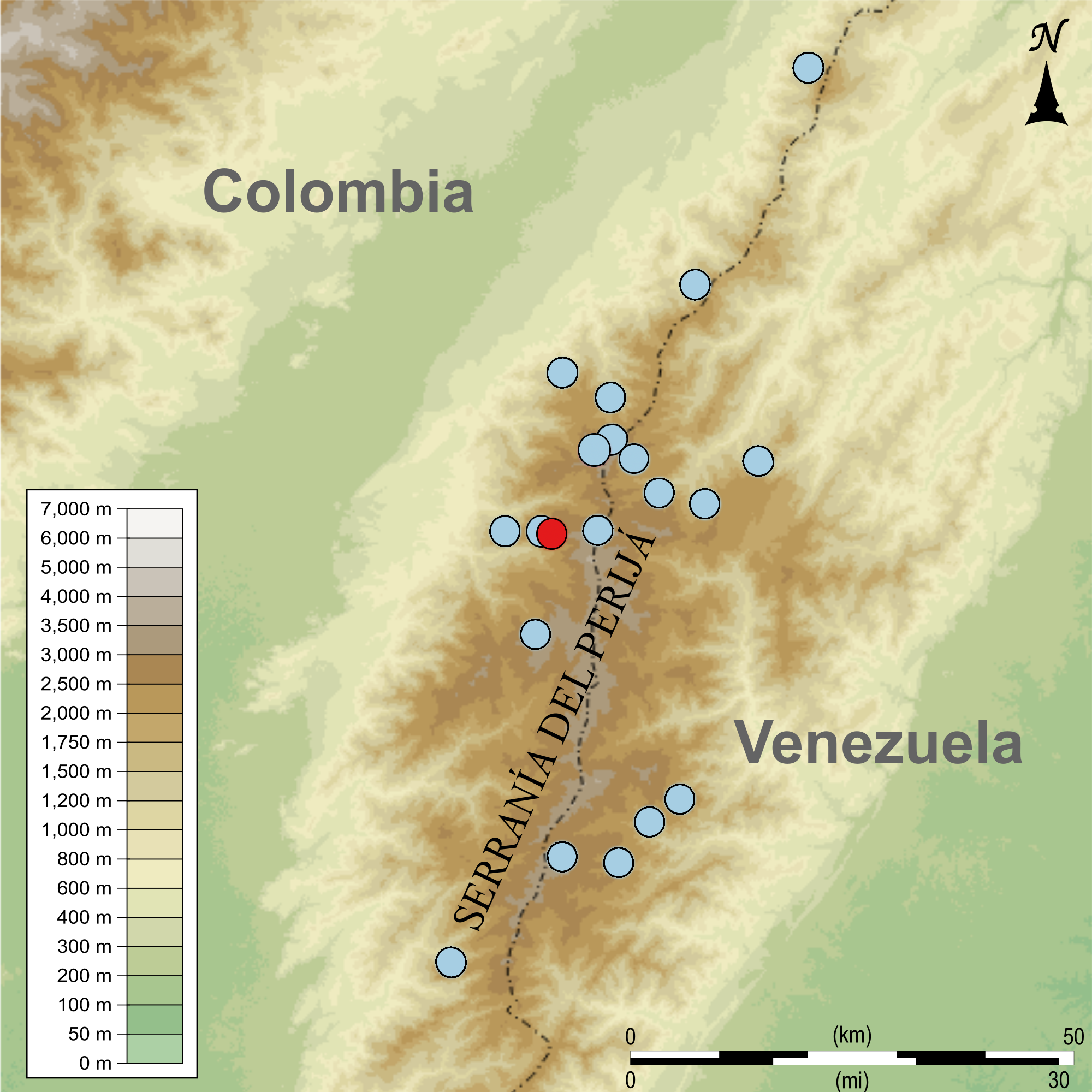 Map of the Serranía del Perijá along the Colombia-Venezuela border, showing the range of the Perijá tapaculo. Light blue represents records of specimens Red represents the type specimen